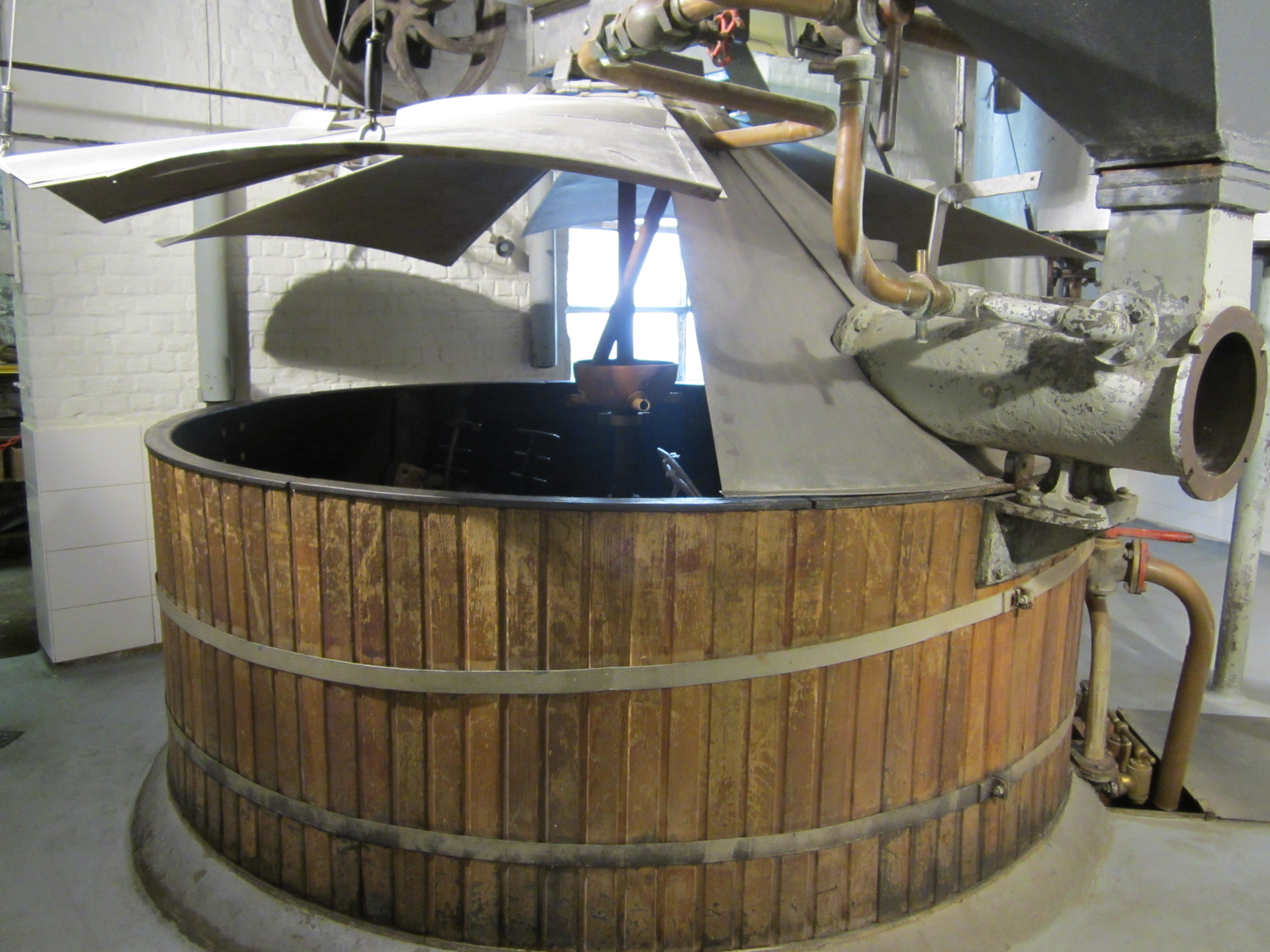 Cantillon Brewery (Brussels, Belgium) mash tun, part of the gueuze museum